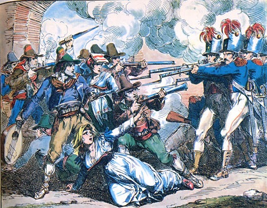 Capture of Alessandro Massaroni chief brigand at Monticelli (now Monte san Biagio)